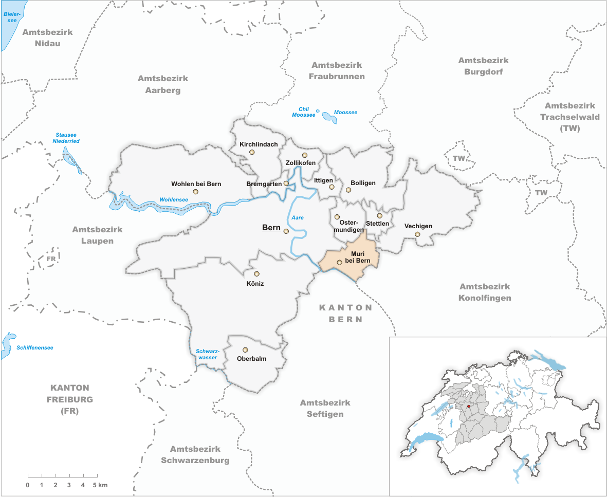 Municipality Muri bei Bern